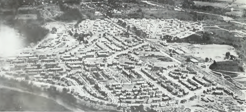 View from the Air of Yorkship Village, the housing project of New York Shipbuilding, Camden, New Jersey.